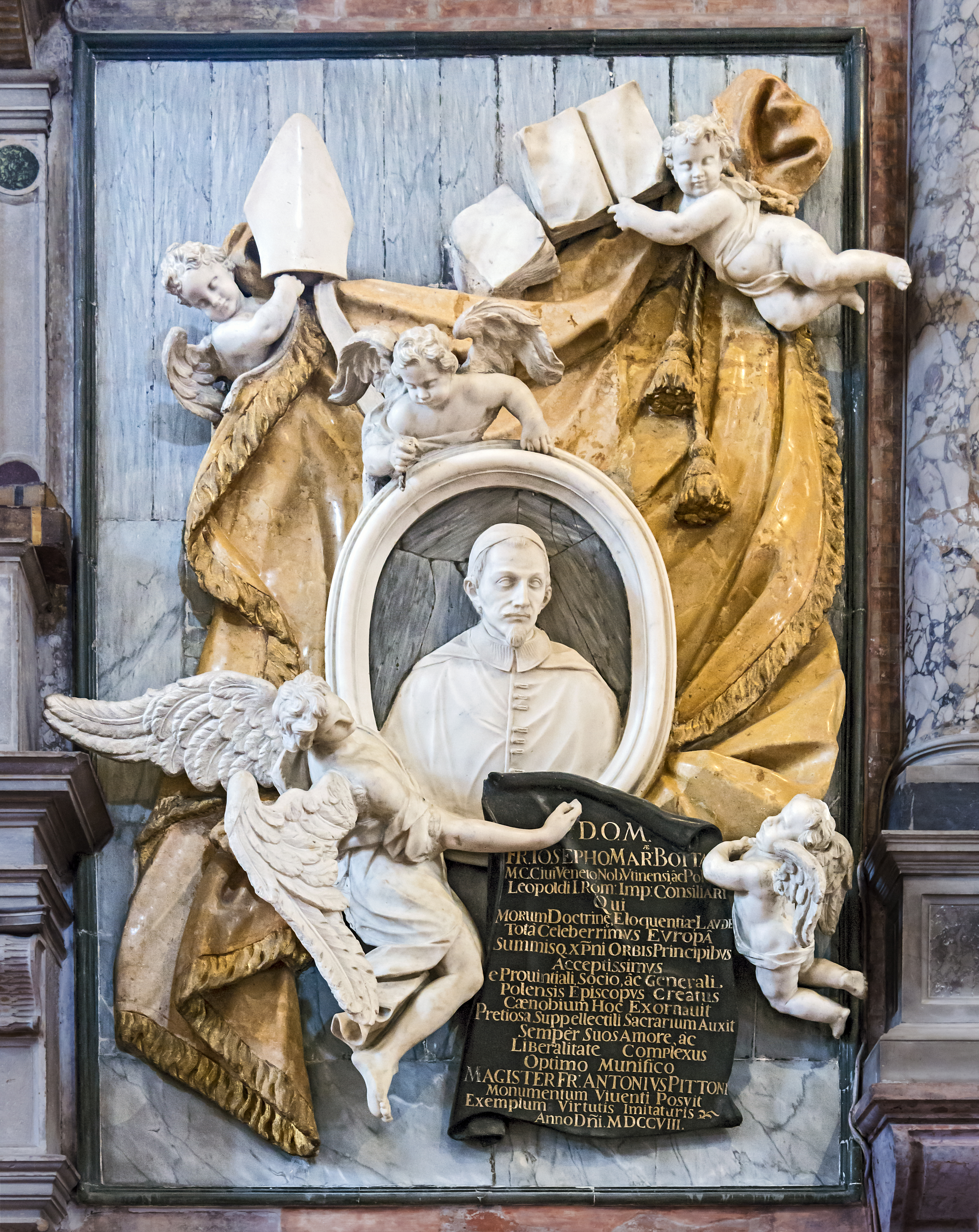 Santa Maria Gloriosa dei Frari, monument to Giuseppe Bottari by Francesco Cabianca.